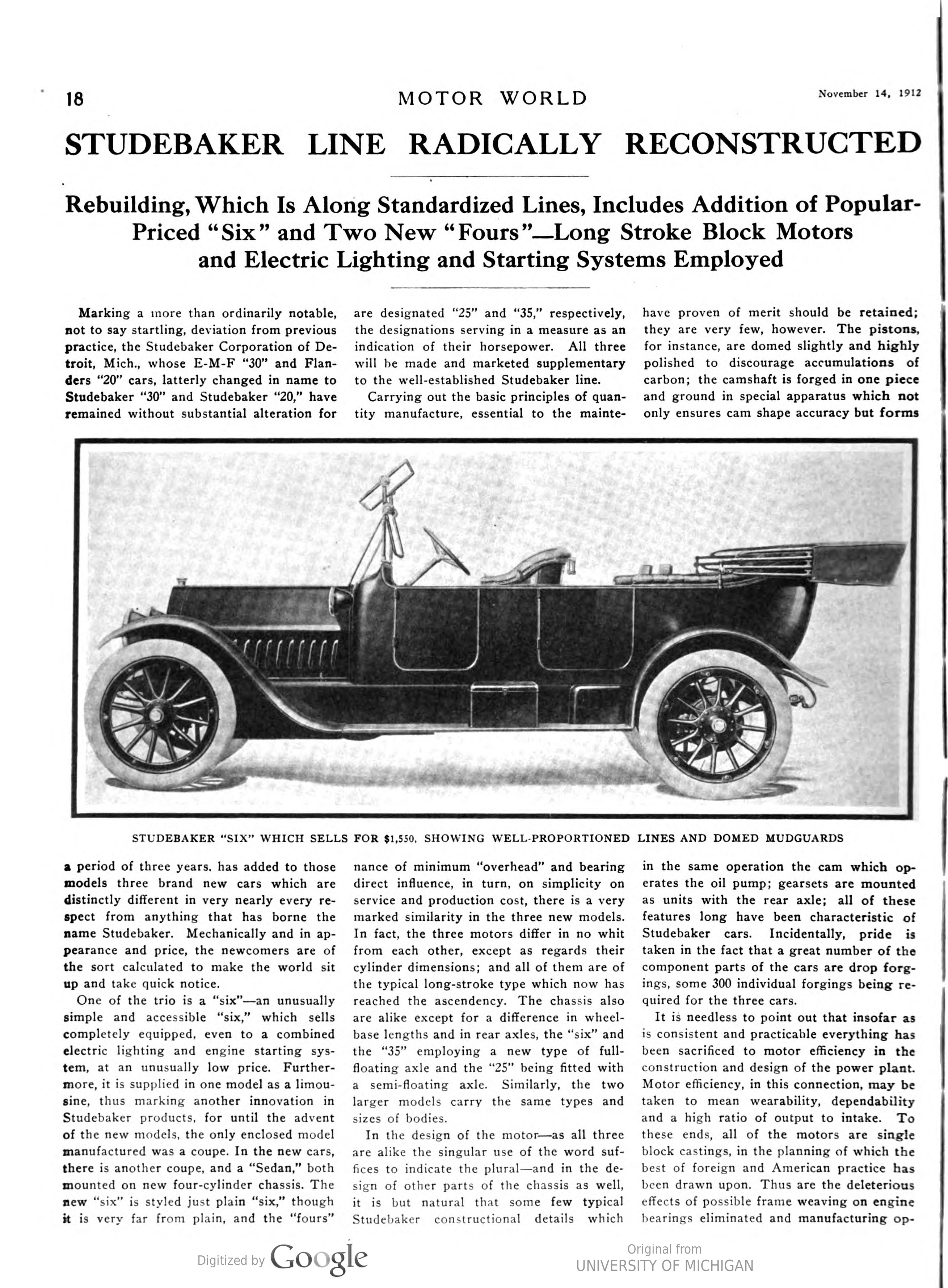 Magazine article with the first recorded use of sedan for an automobile